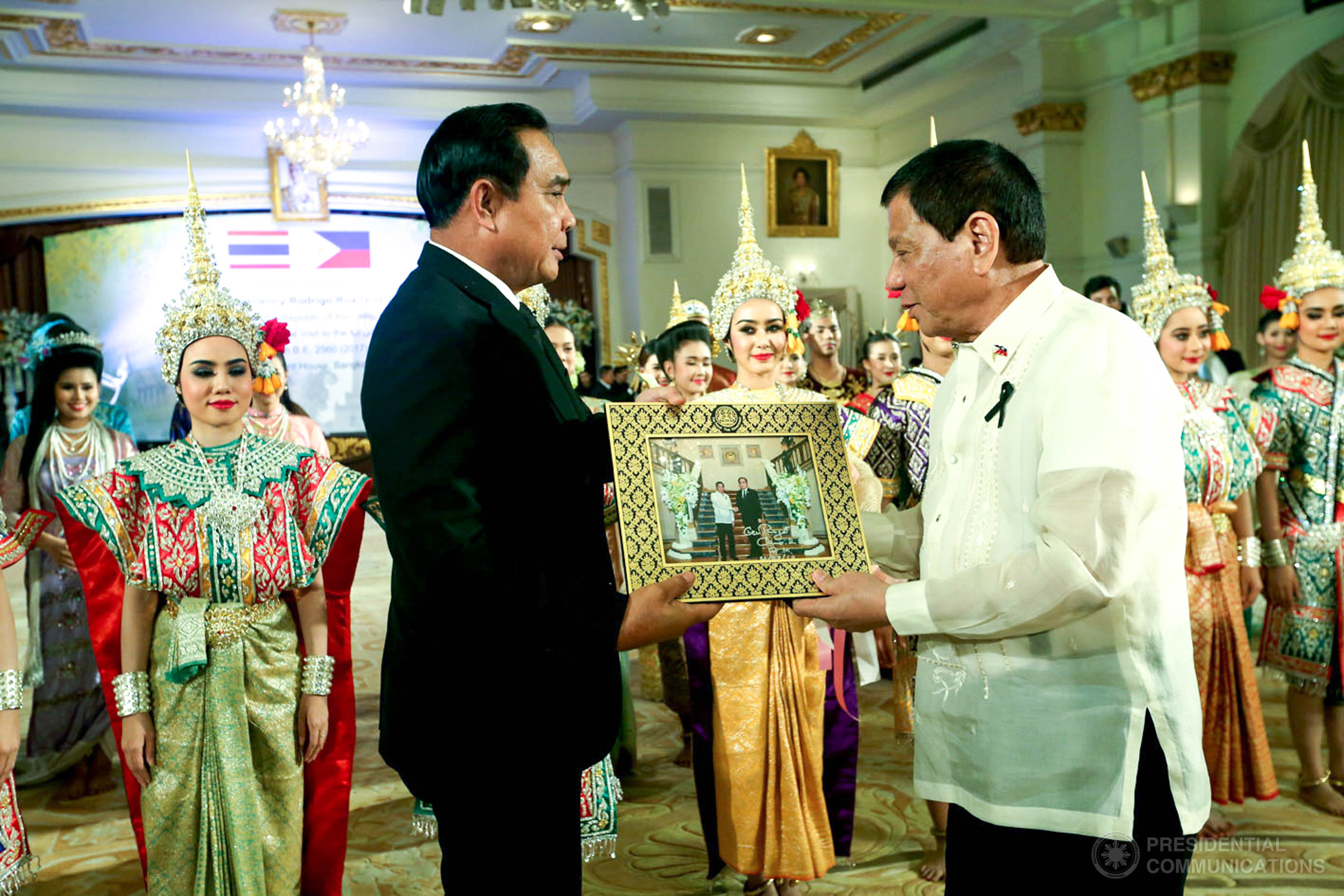 President Rodrigo Roa Duterte receives a token from Thai Prime Minister General Prayut Chan-o-cha during the state dinner at the Government House in Bangkok, Thailand on March 21, 2017. SIMEON CELI JR./Presidential Photo